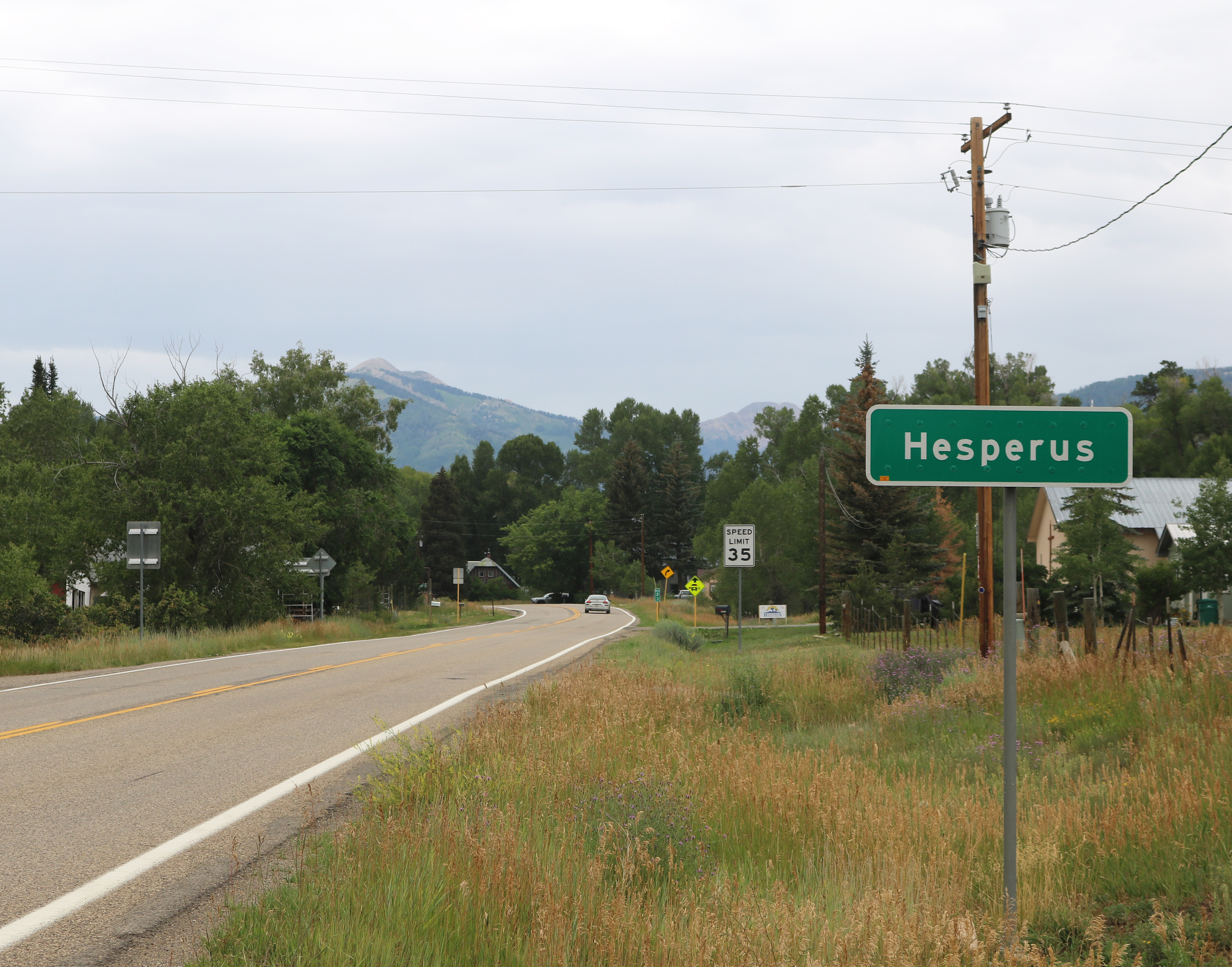 Entering Hesperus, Colorado from the south on Colorado State Highway 140. The mountain in the background is called Baldy Peak, elevation 10,850 feet (3,307 meters).